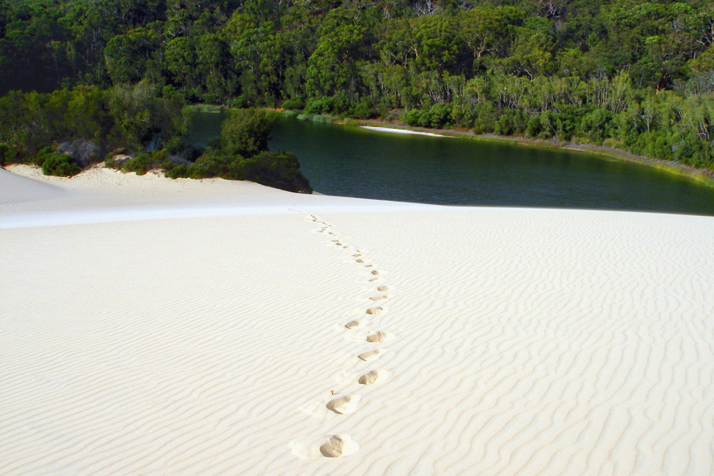 Great Sandy National Park, Australia, Fraser Island, Lake Wabby